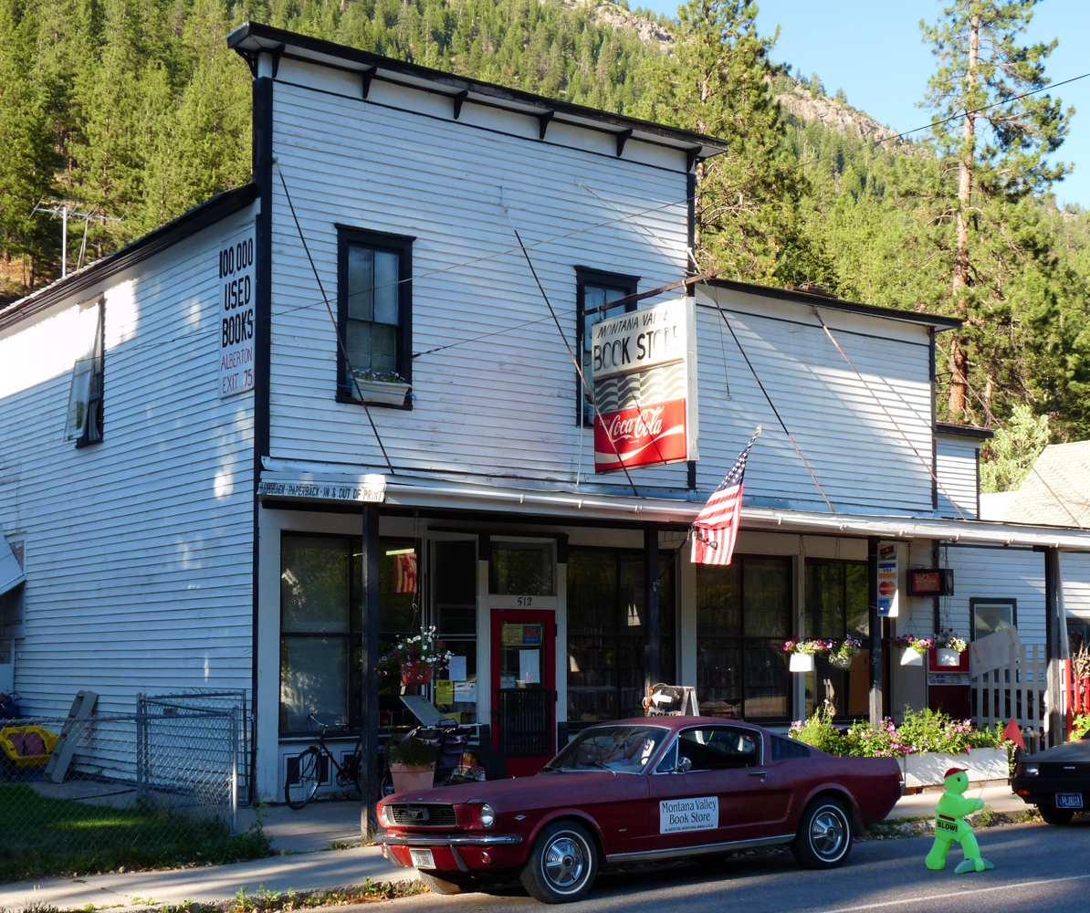 Storefront of Bestwick's Market, established 1910, now the Montana Valley Bookstore, Alberton, Montana, United States